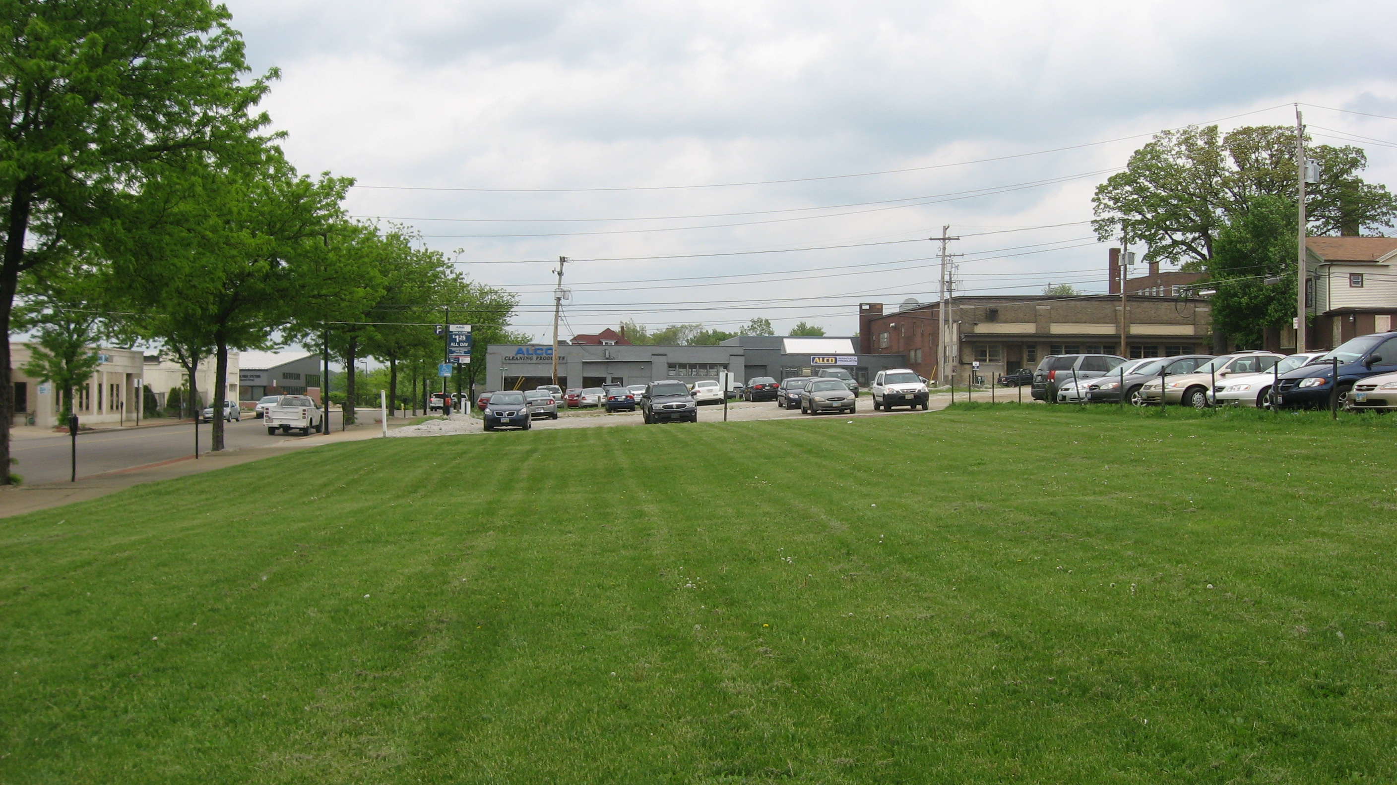 An empty lot on the northeastern corner of the junction of Market (State Route 18) and Summit Streets in downtown Akron, Ohio, United States. This building occupies the site of the Eagles Temple, which was listed on the National Register of Historic Places in 1982; it has not yet been removed.